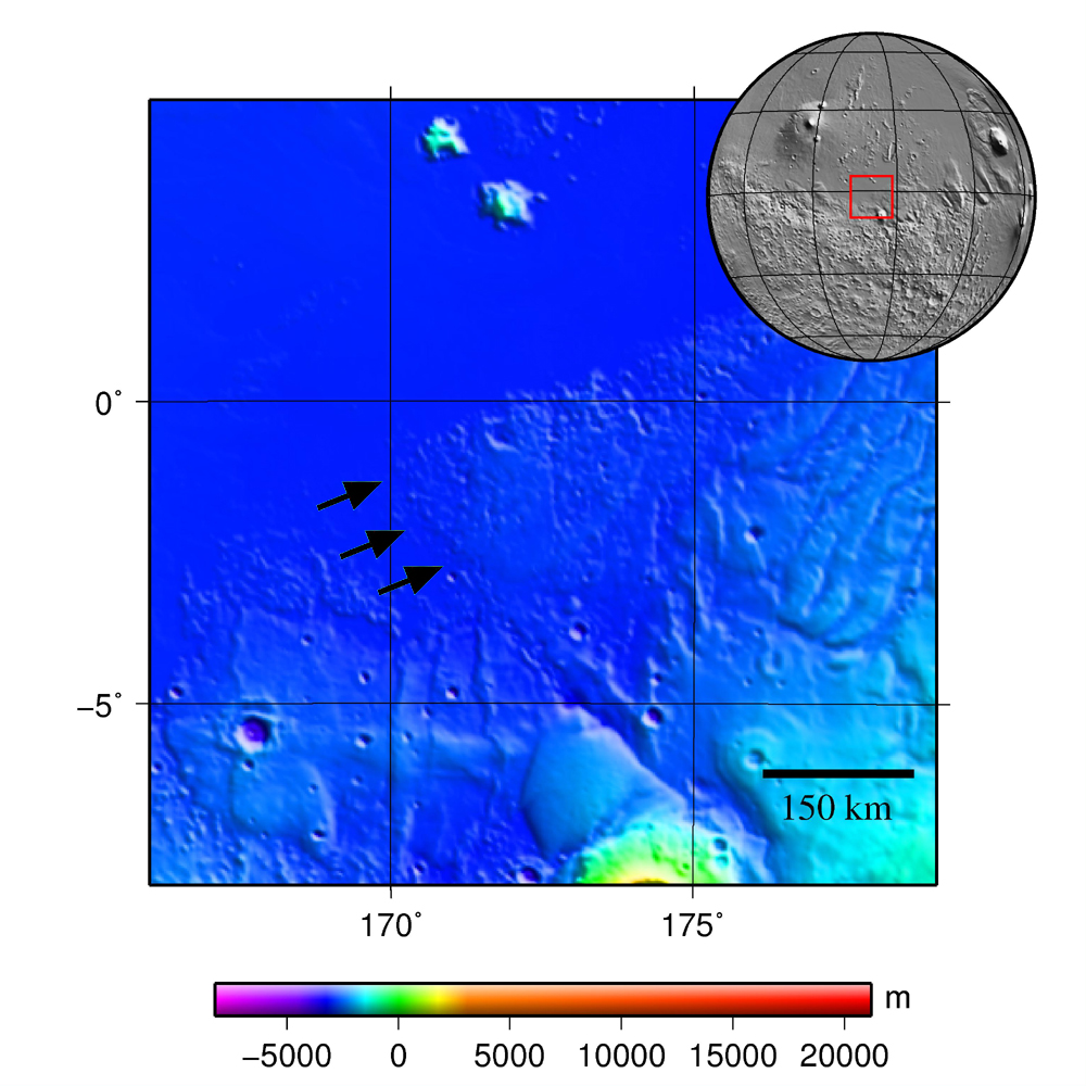 Avernus Colles (Mars) topography